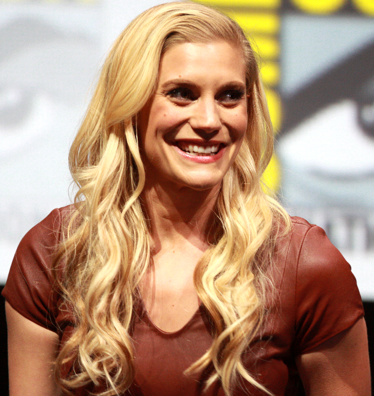 Katee Sackhoff at the 2013 San Diego Comic Con International in San Diego, California.